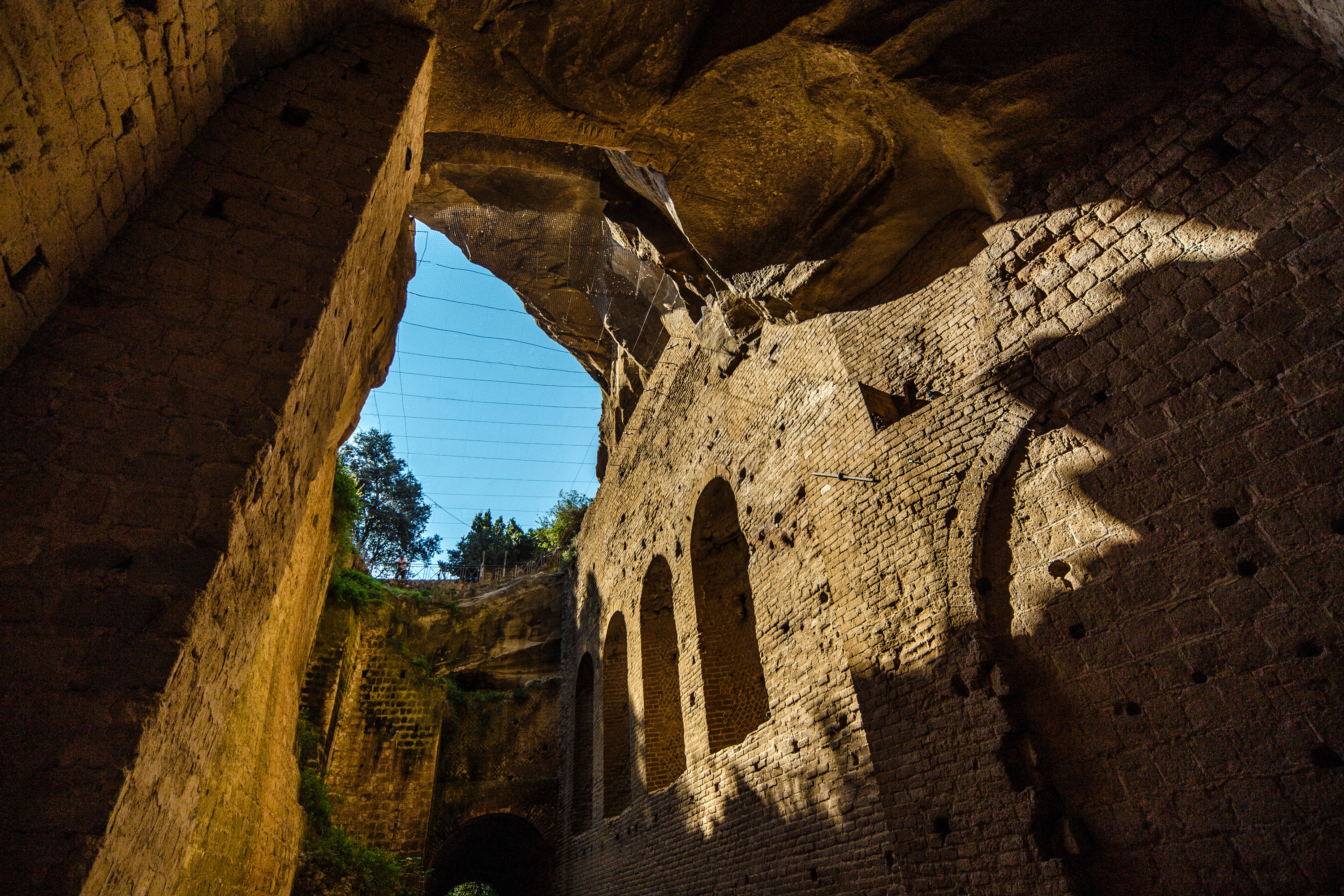 This is a photo of a monument which is part of cultural heritage of Italy.